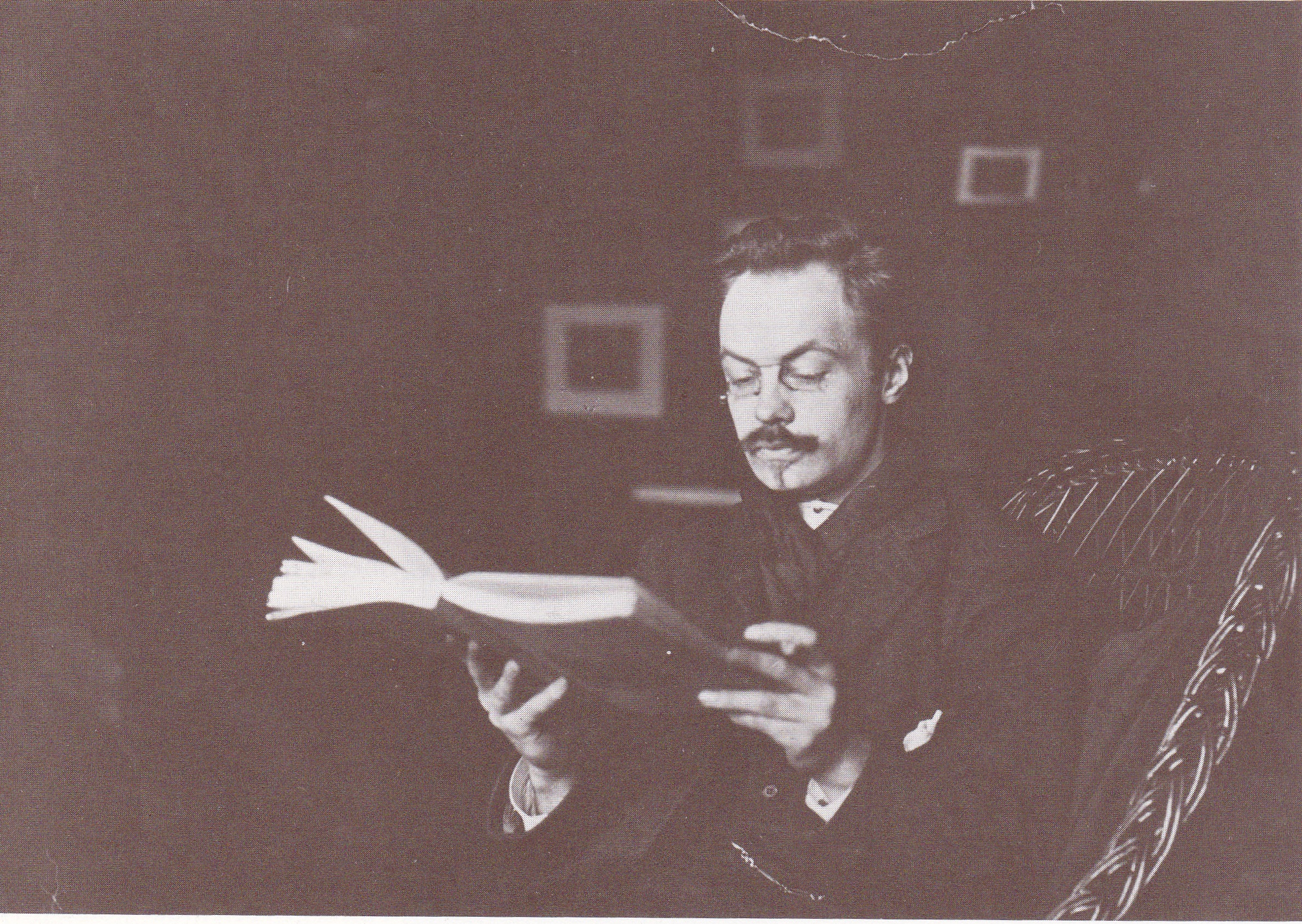 Alphons Diepenbrock. Photograph by Willem Witsen, most probably at Witsen's studio in August 1891.